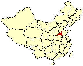 PRC provinces (1949) - Pingyuan